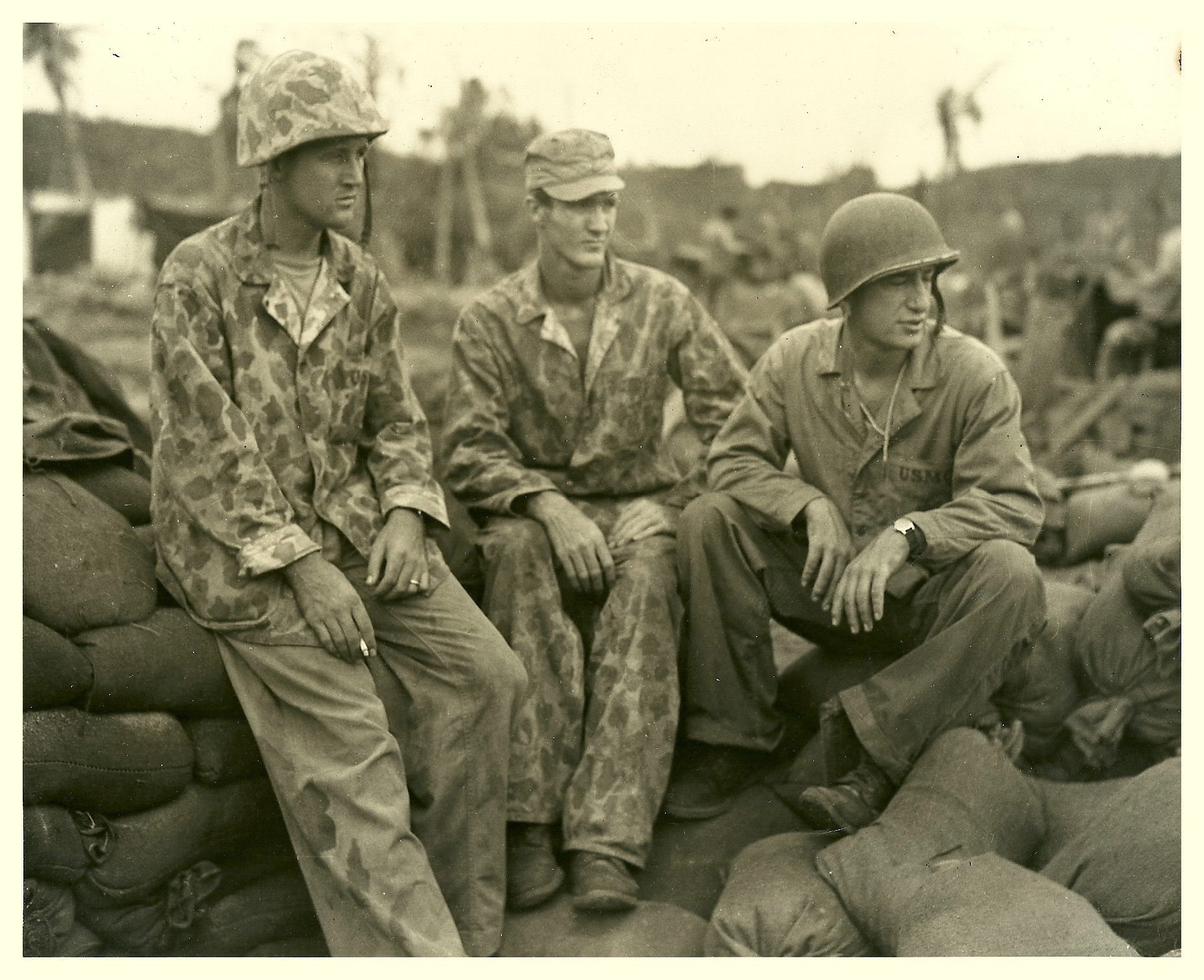 This image is a work of a U.S. Navy soldier or employee, taken or made during the course of the person's official duties. As a work of the U.S. federal government, the image is in the public domain.